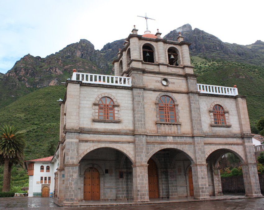 Front view of the mercedarian church at the sanctuary "Señor de Huanca" in the "Holy valley", 15km southeast of Pisac (Peru)